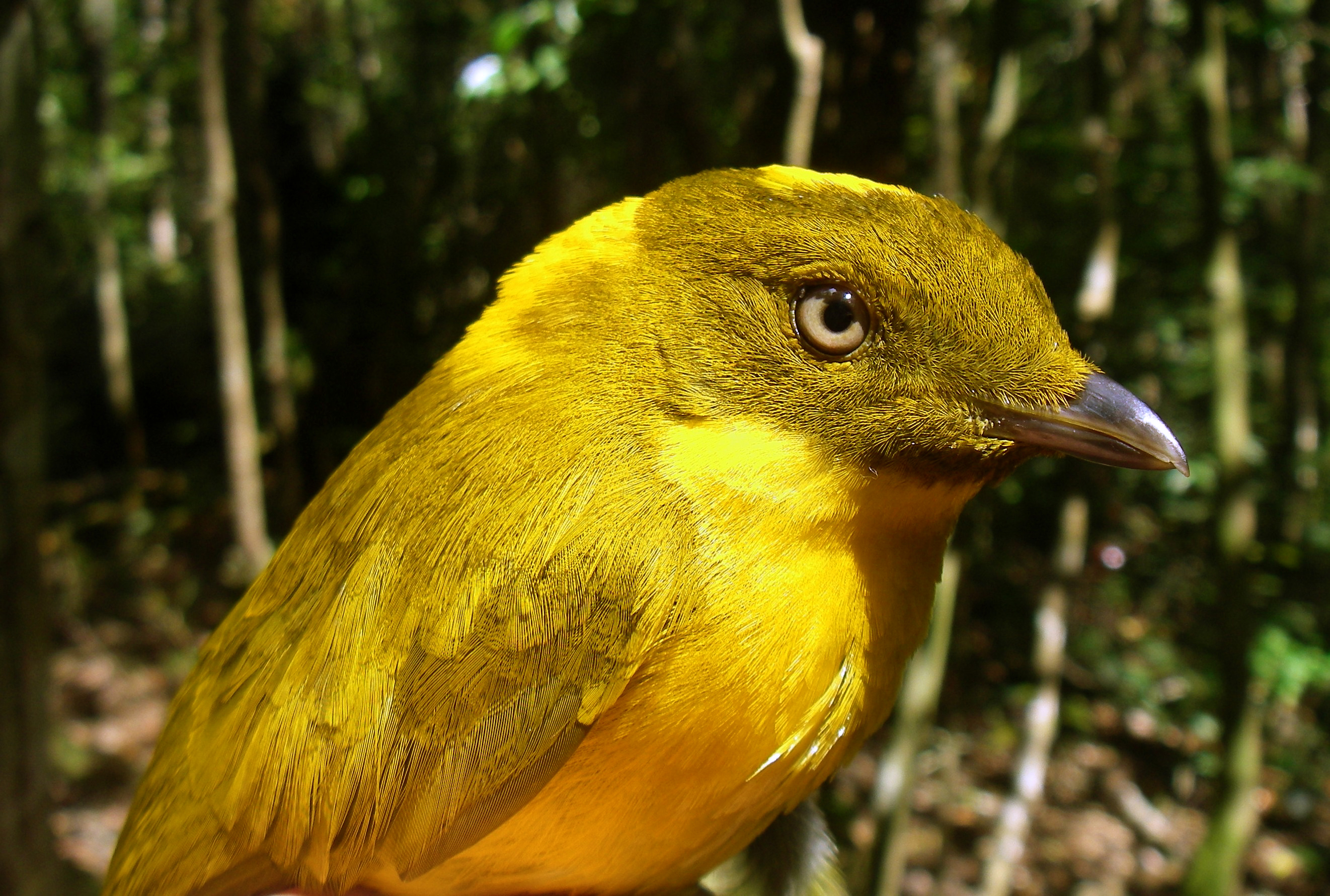 Golden Bowerbird (Prionodura newtoniana)